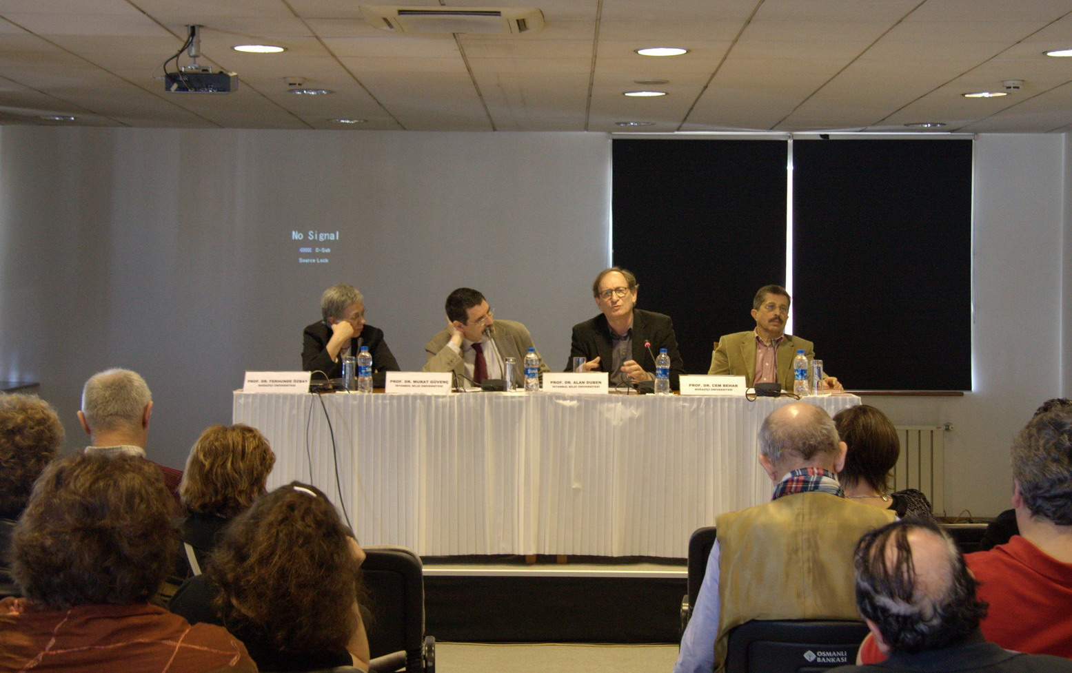 In 2009, the Ottoman Bank Archives and Research Centre launched the Istanbul Symposium series, which examined Istanbul within an economic, social and cultural framework. The opening symposium, “Old Istanbulites and New Istanbulites,” was curated by Prof. Murat Güvenç and explored the demographic structure of Istanbul during the process of modernization. Held December 2009 under the curatorship of Prof. Çağlar Keyder, titled “Economy in Globalizing Istanbul,” the second Istanbul Symposium addressed the ongoing dynamics of globalization, and its effects on the city’s economy from the 1990s onwards. The closing symposium, curated by Assist. Prof. İpek Yada Akpınar with the support of Prof. Sibel Bozdoğan, addressed Istanbul’s saga of modernization, examining how the architect, the designer, and the city dweller visualized urbanism.